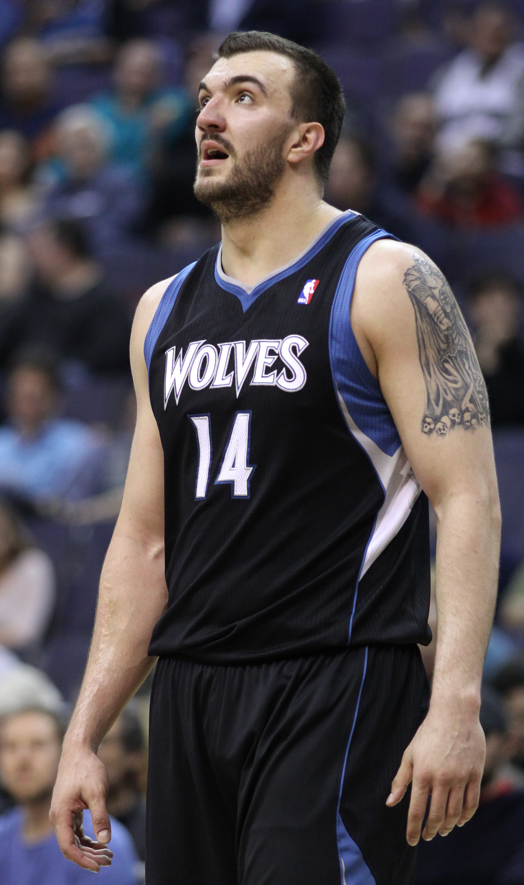 Wizards v/s Timberwolves 03/05/11Nikola Pekovic